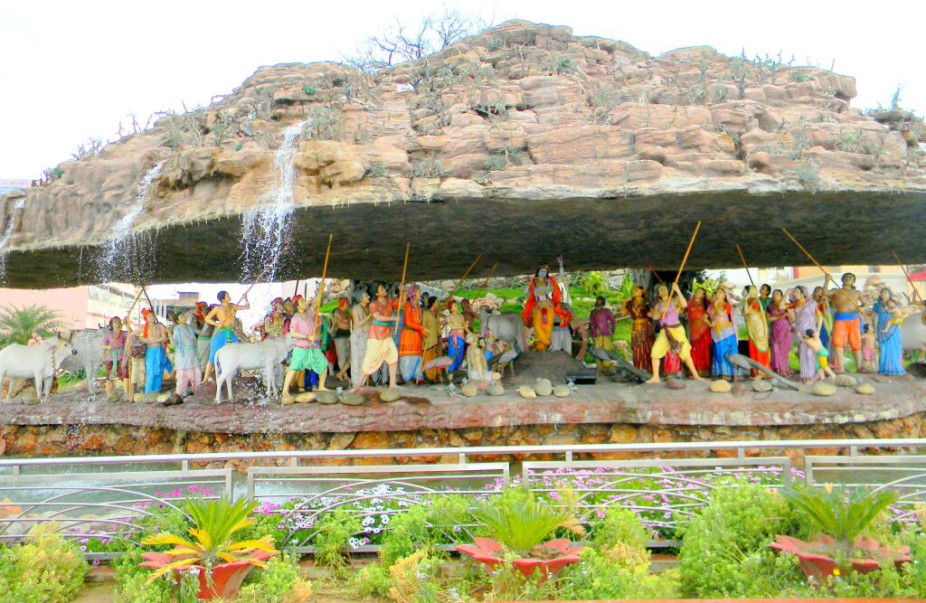 Govardhan Parvat(Mountain) replica at Prem Mandir